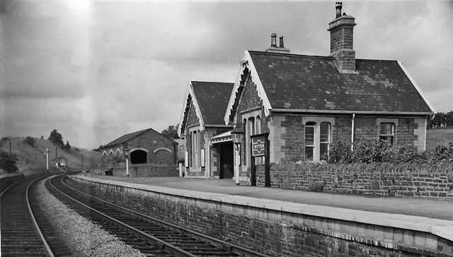 Bitton Station. View NW, towards Mangotsfield; ex-Midland Mangotsfield - Bath line, closed 7/3/66 (goods 7/71). Restored by Avon Valley Railway, who now operate trains to Riverside, a mile or so to SE